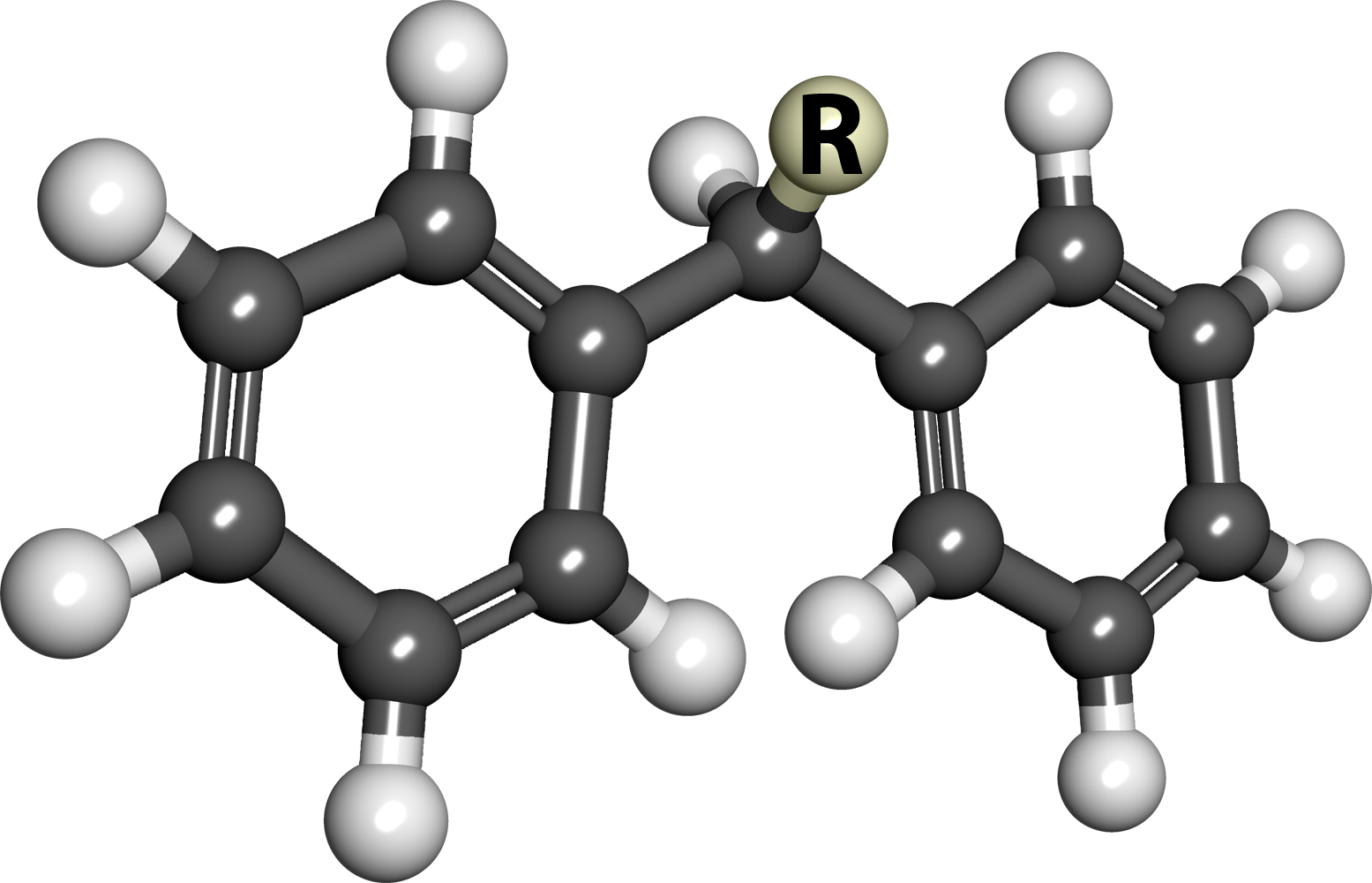 Ball and stick model of the benzhydryl group.